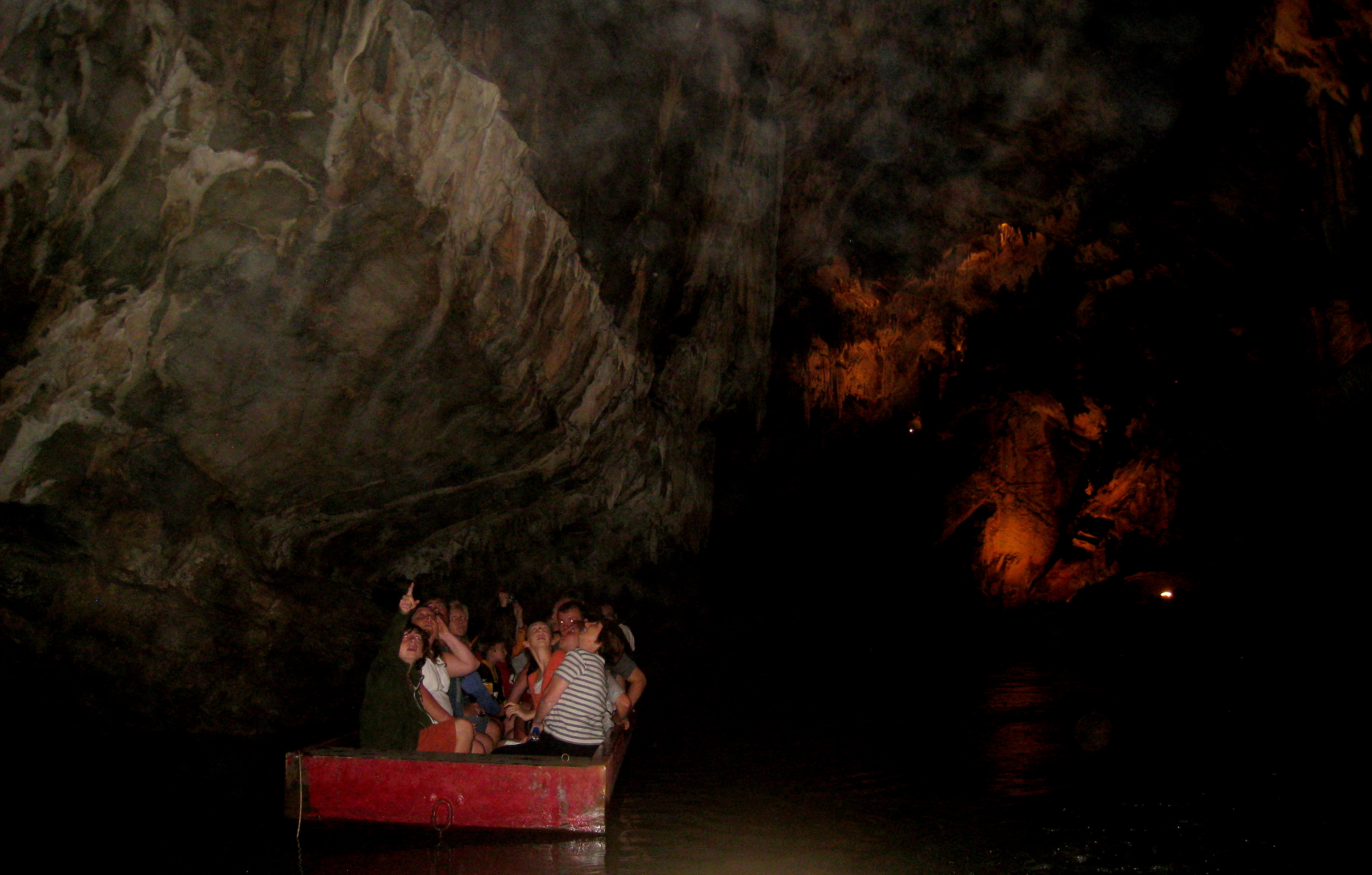 Penn's Cave, Centre Hall, Pennsylvania, USA.